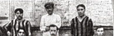 Ignacio Rota, Serapio Acosta y Zenón Díaz